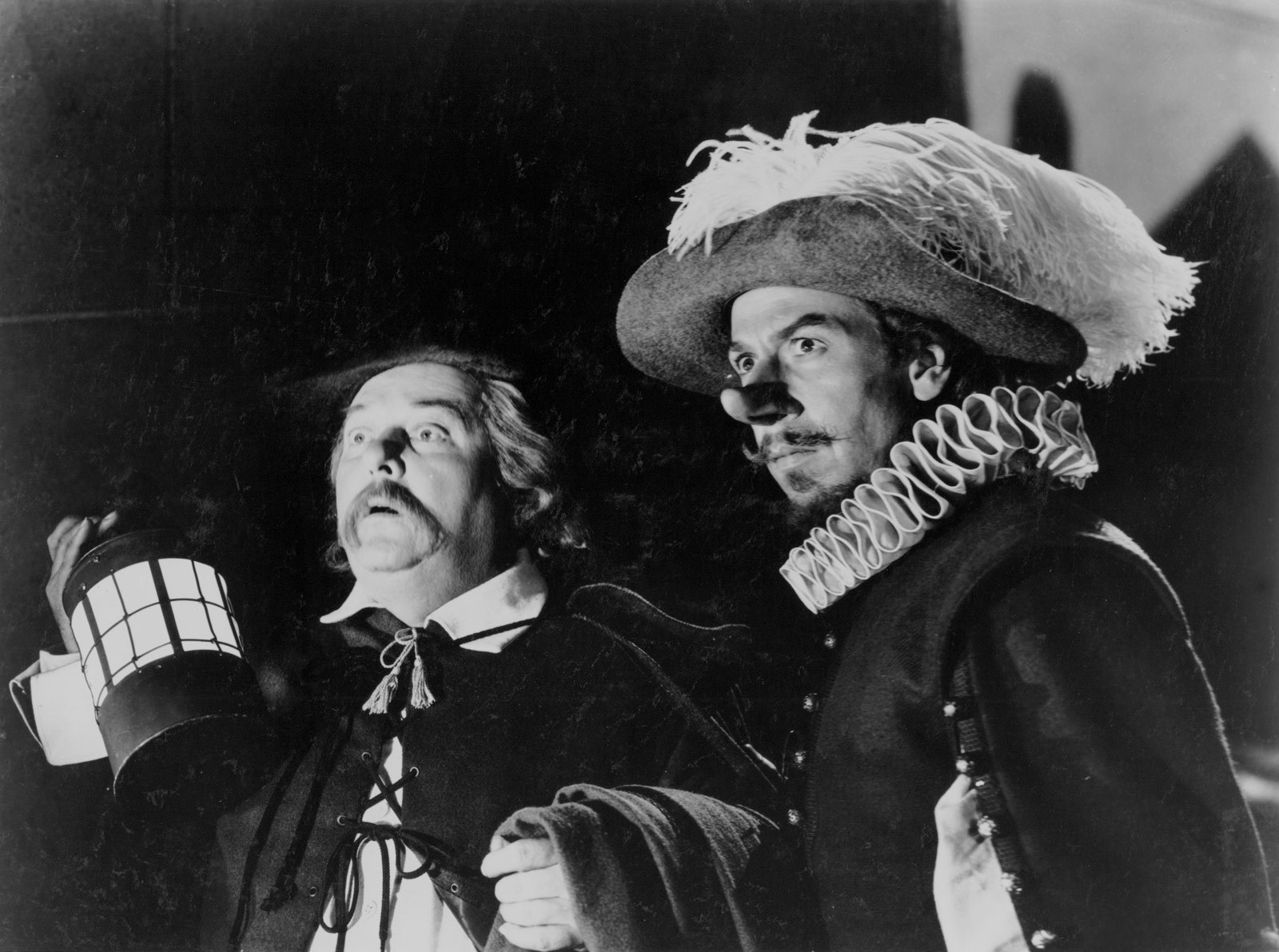 Lloyd Corrigan (left) and José Ferrer in Cyrano de Bergerac - cropped screenshot